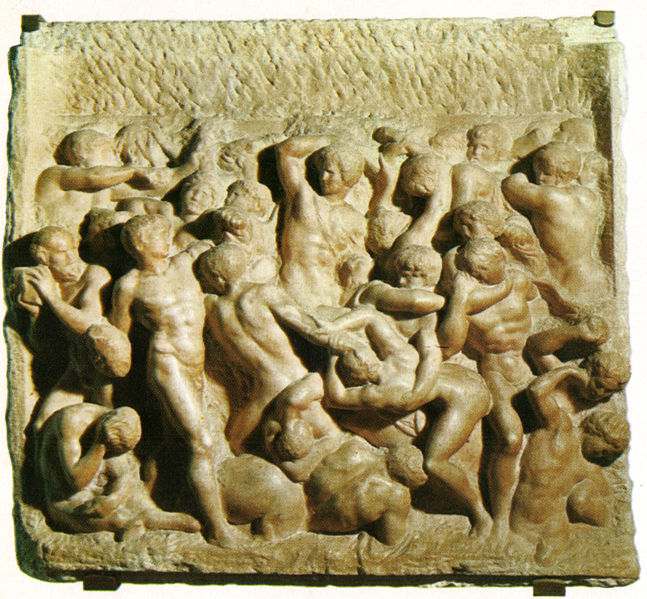 Battle of the Centaurs (Michelangelo)